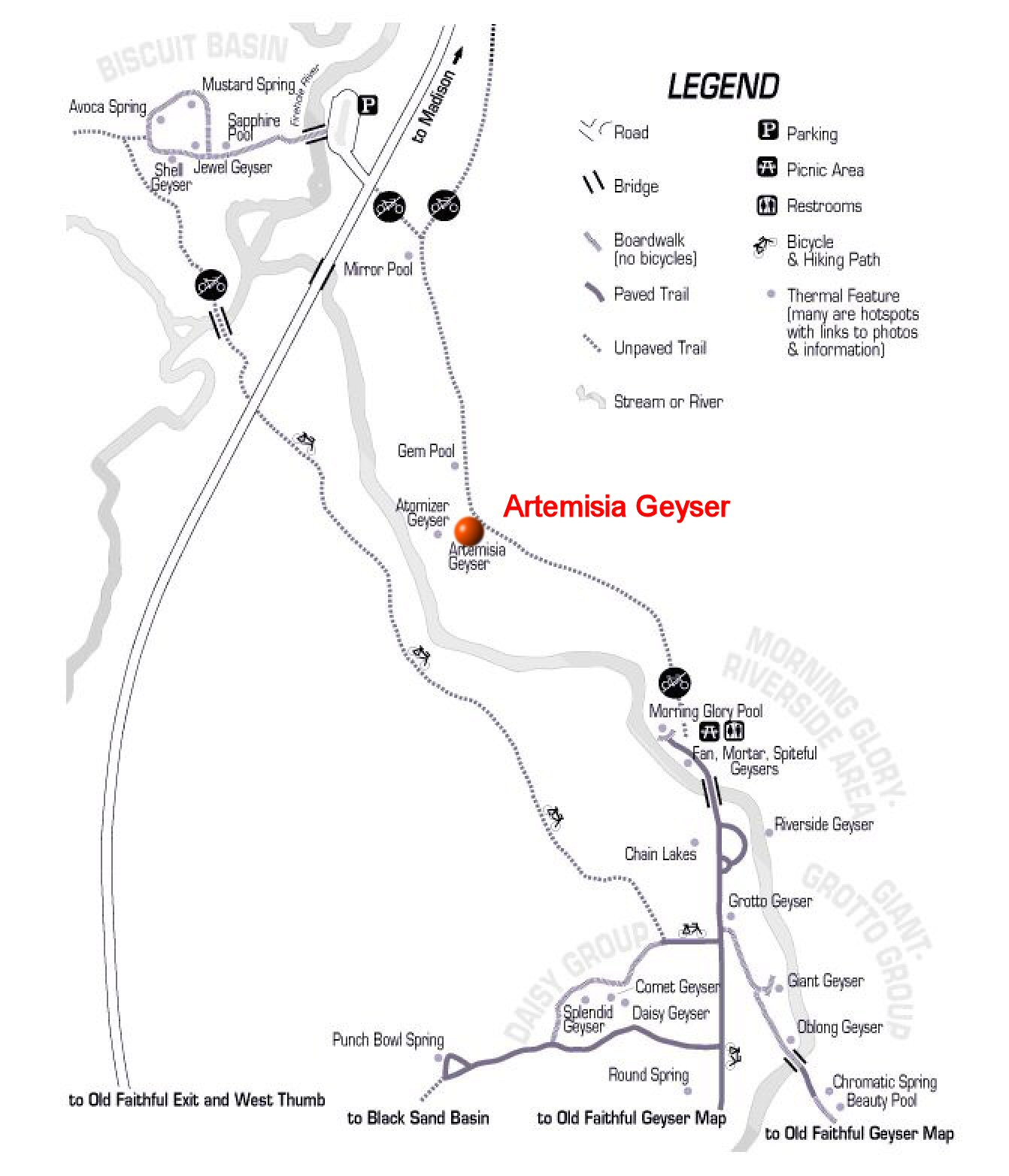 Map of northern section of Upper Geyser Basin, Yellowstone National Park with Artemisia Geyser annotated